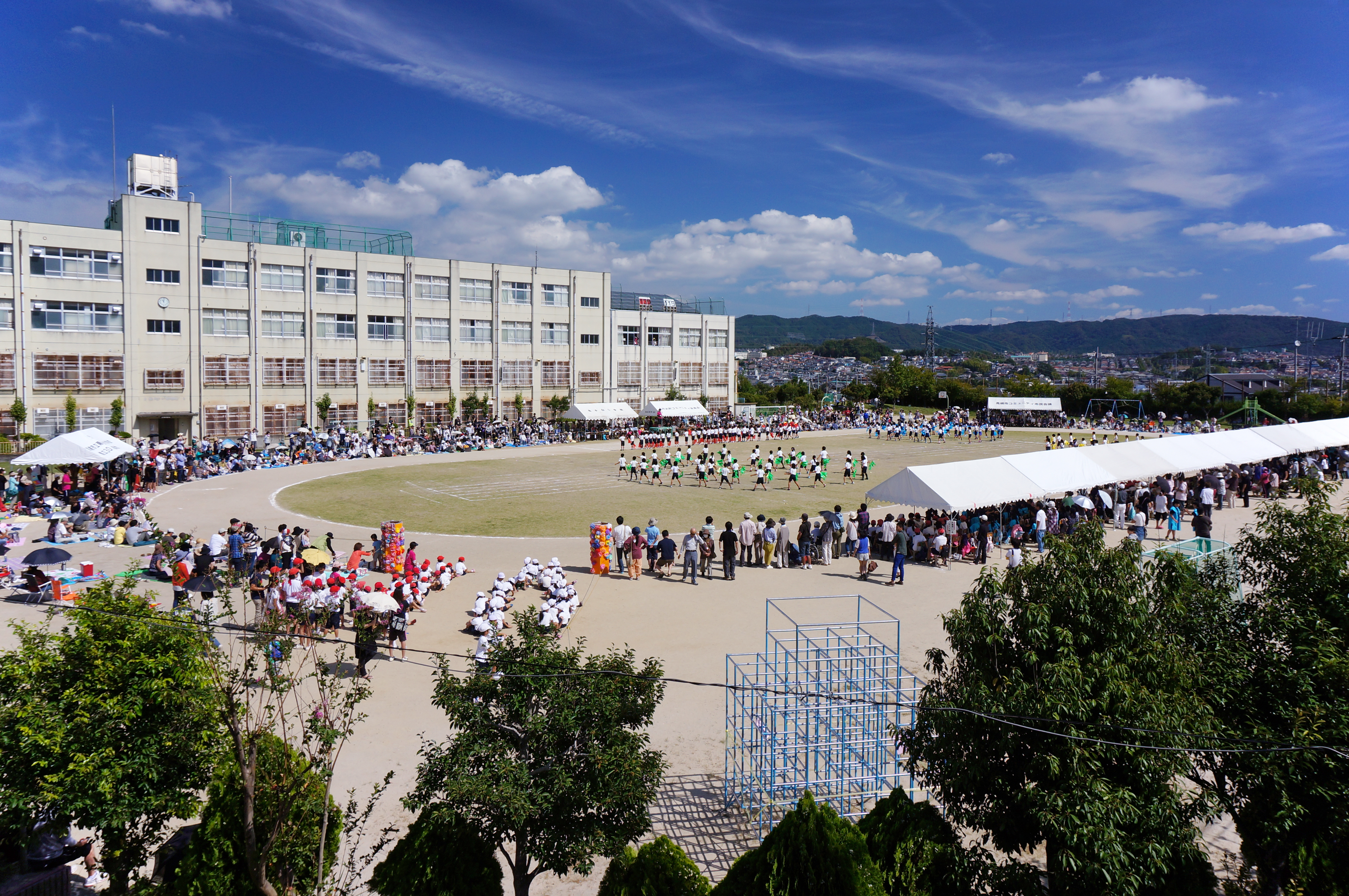 Takatsuki City Nampeidai elementary school, Nanpeidai 5-chome, Takatsuki, Osaka prefecture, Japan.